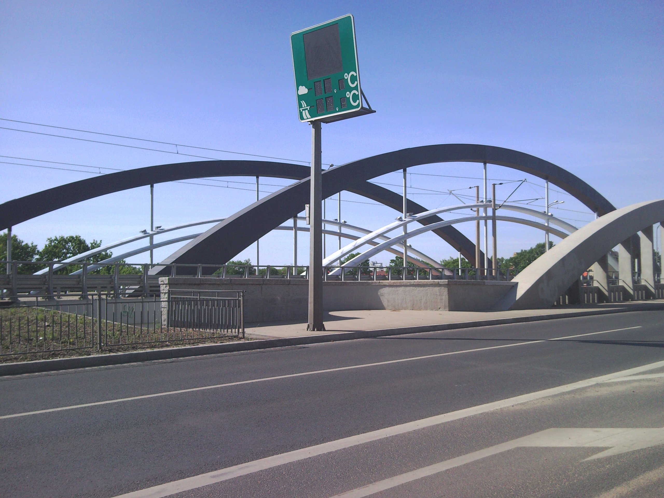 The Warszawski Bridge in Wrocław